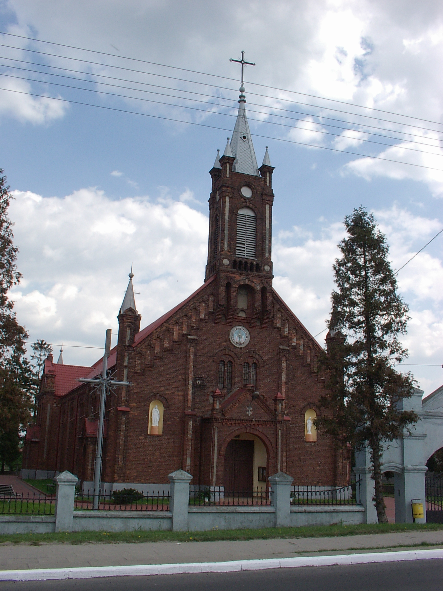 Mariavite Church in Strykow, Poland.